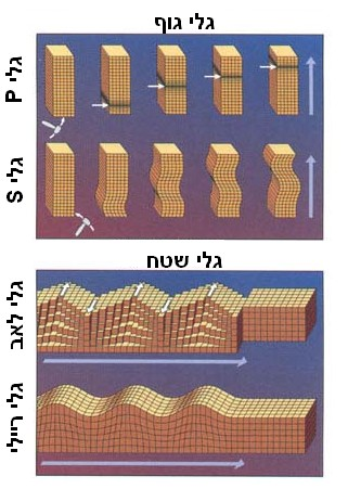 seismic waves ; original upload in english wikipedia, 8 June 2004 by Fuelbottle